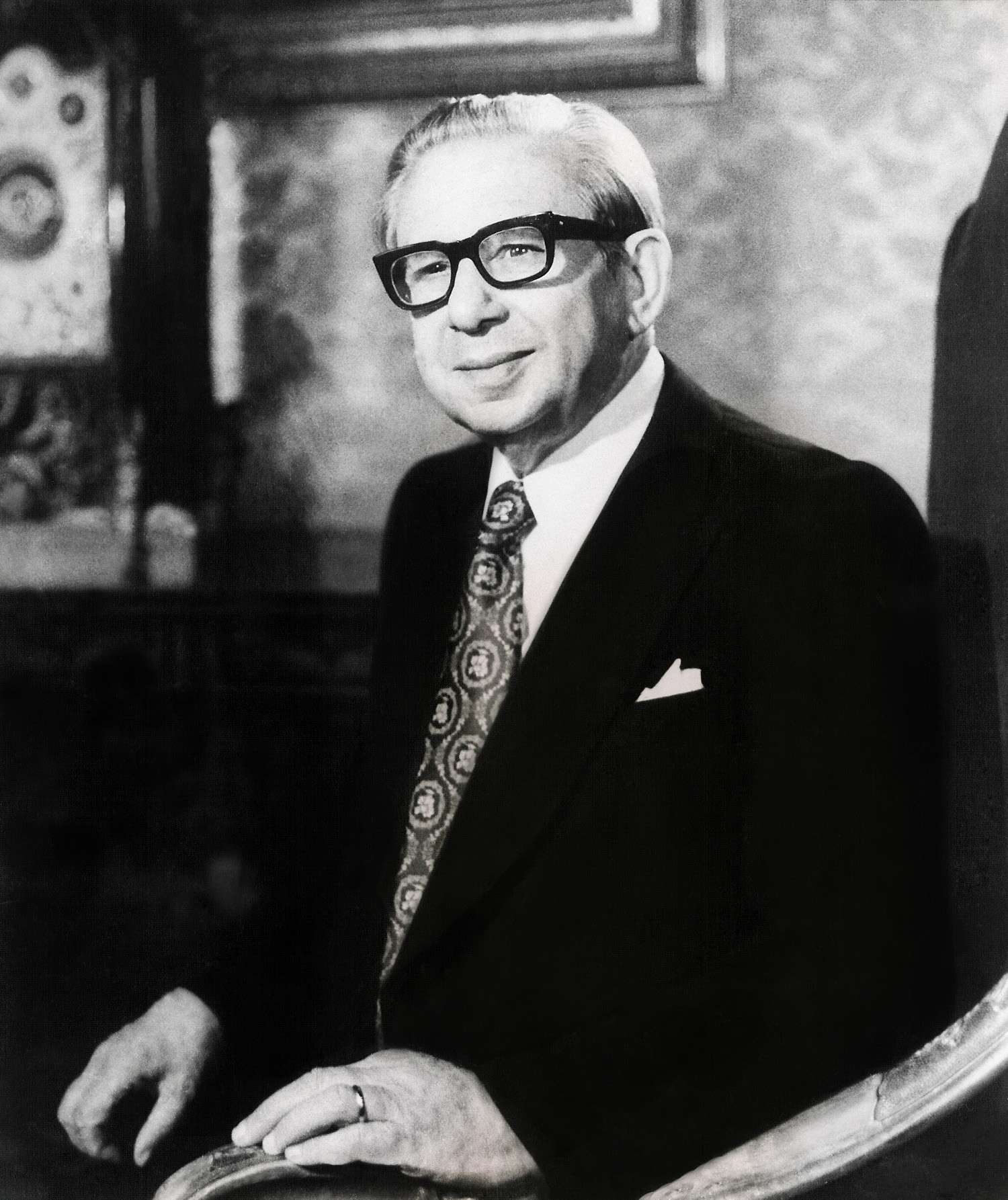 Portrait of Anton Buttigieg provided by the government of Malta.